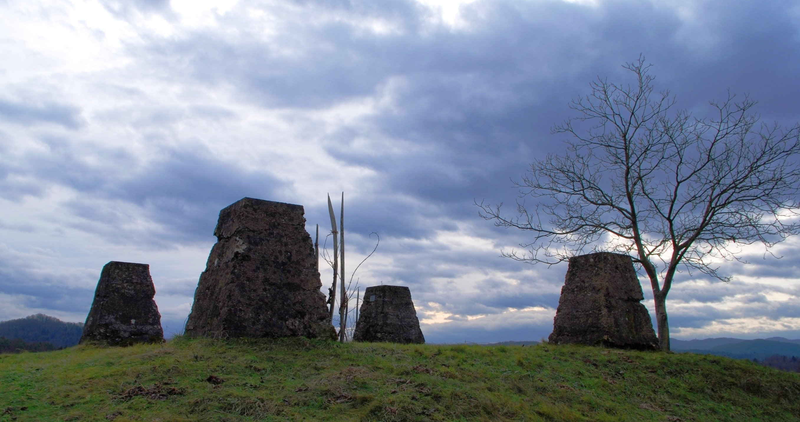 The foundation stones of observation post no. 4 of the occupation border in Hinjce, Municipality of Sevnica (Slovenia). The village of Hinjce was traversed by the border between the Italian and the German occupation zone until September 1943 and was divided by it into two parts.